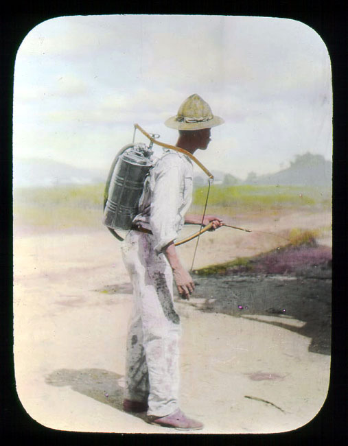 Man spraying kerosene oil into ponds, water-filled trenches, etc., to protect against mosquitoes carrying malaria. 1912. Name of Expedition: Panama Canal Zone Participants: Seth E. Meek, Samuel F. Hildebrand Expedition Start Date: 1911 Expedition End Date: 1912 Purpose or Aims: Zoology (Fishes) Location: Central America, Panama, Canal Zone Original material: Hand-colored Lantern Slide Digital Identifier: CSZ33982c Learn more about The Field Museum's Library Photo Archives.